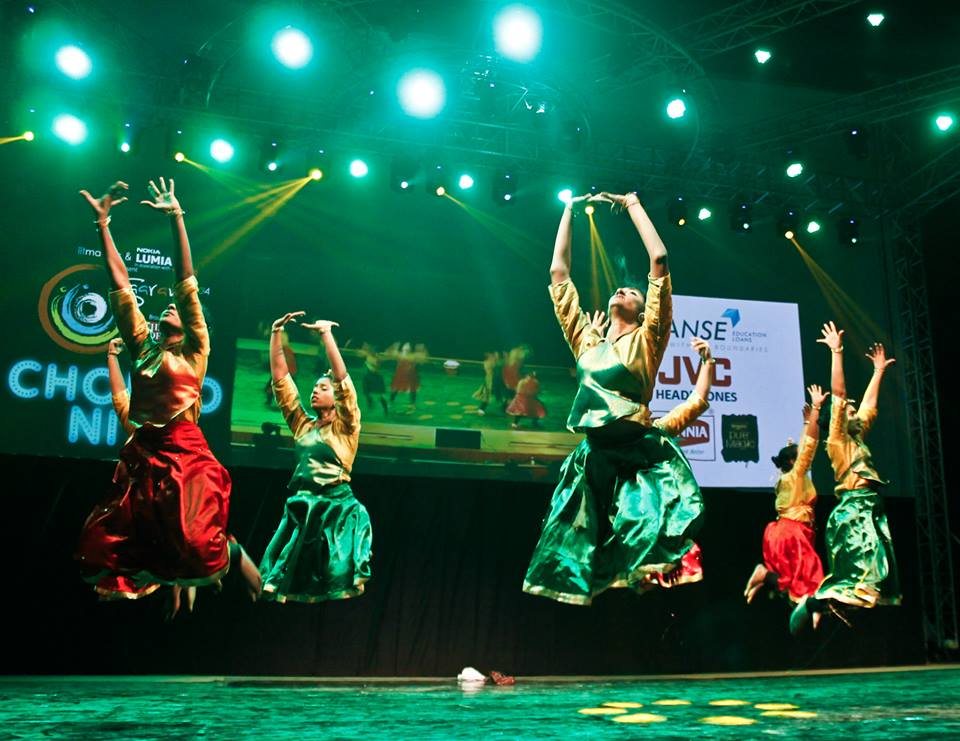 Students put a performance at Choreo